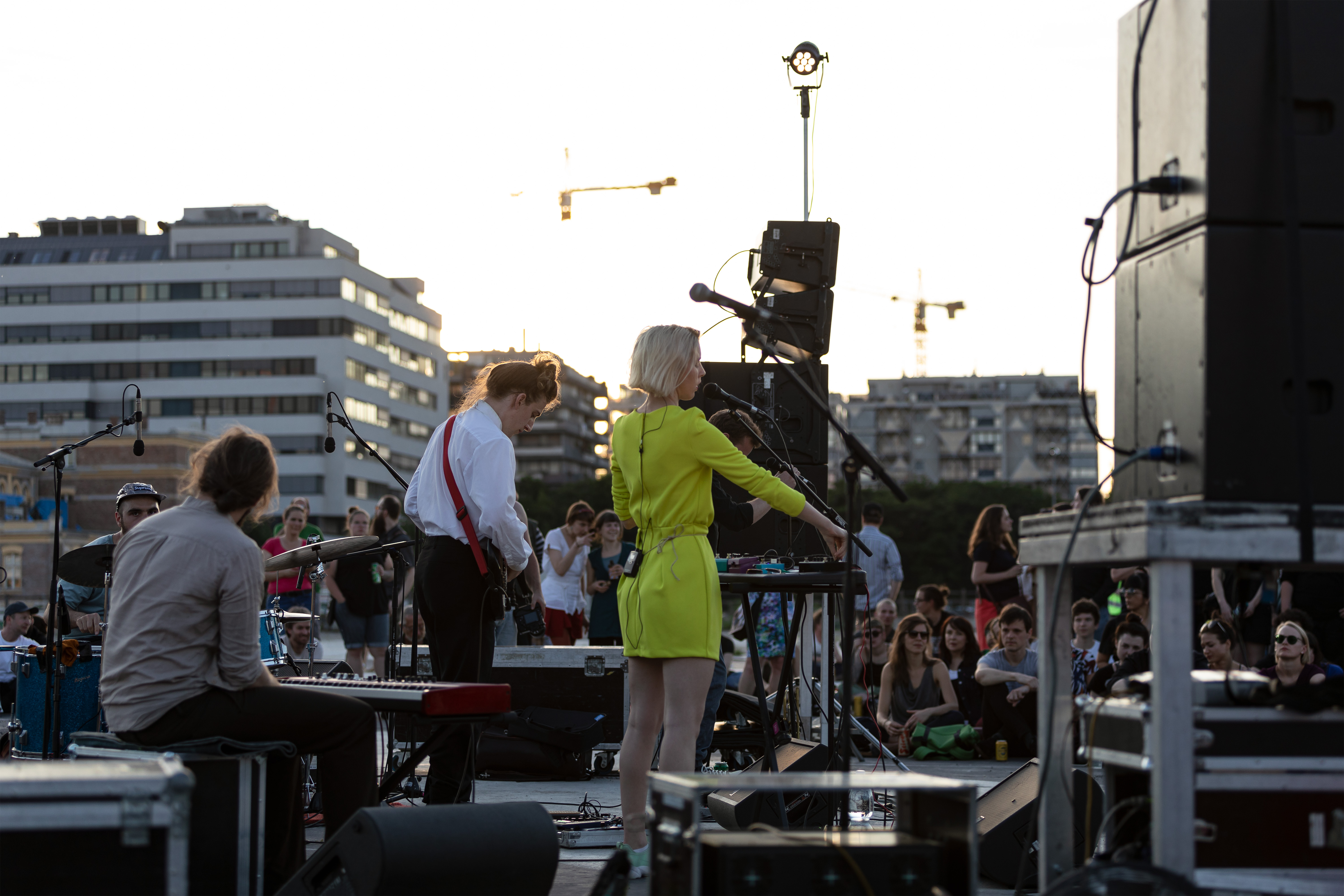 5K HD, concert during the festival Wir sind Wien; Karl-Farkas-Gasse 1 in Neu Marx, Vienna, Austria.